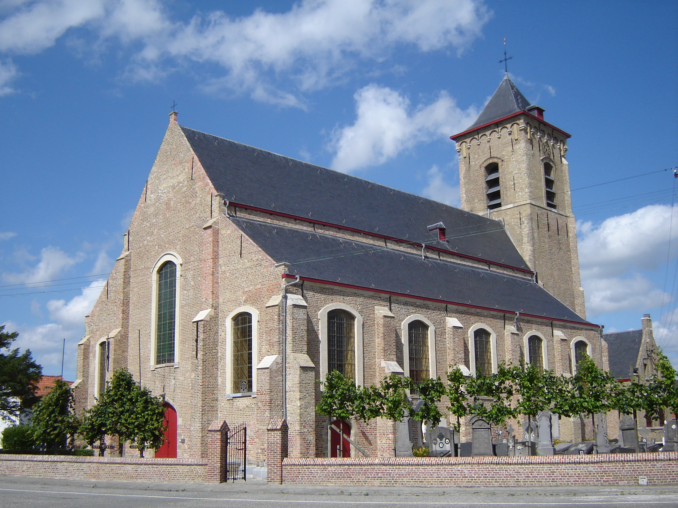 Church of the Holy Trinity and Saint Christianus in Lapscheure. Lapscheure, Damme, West Flanders, Belgium